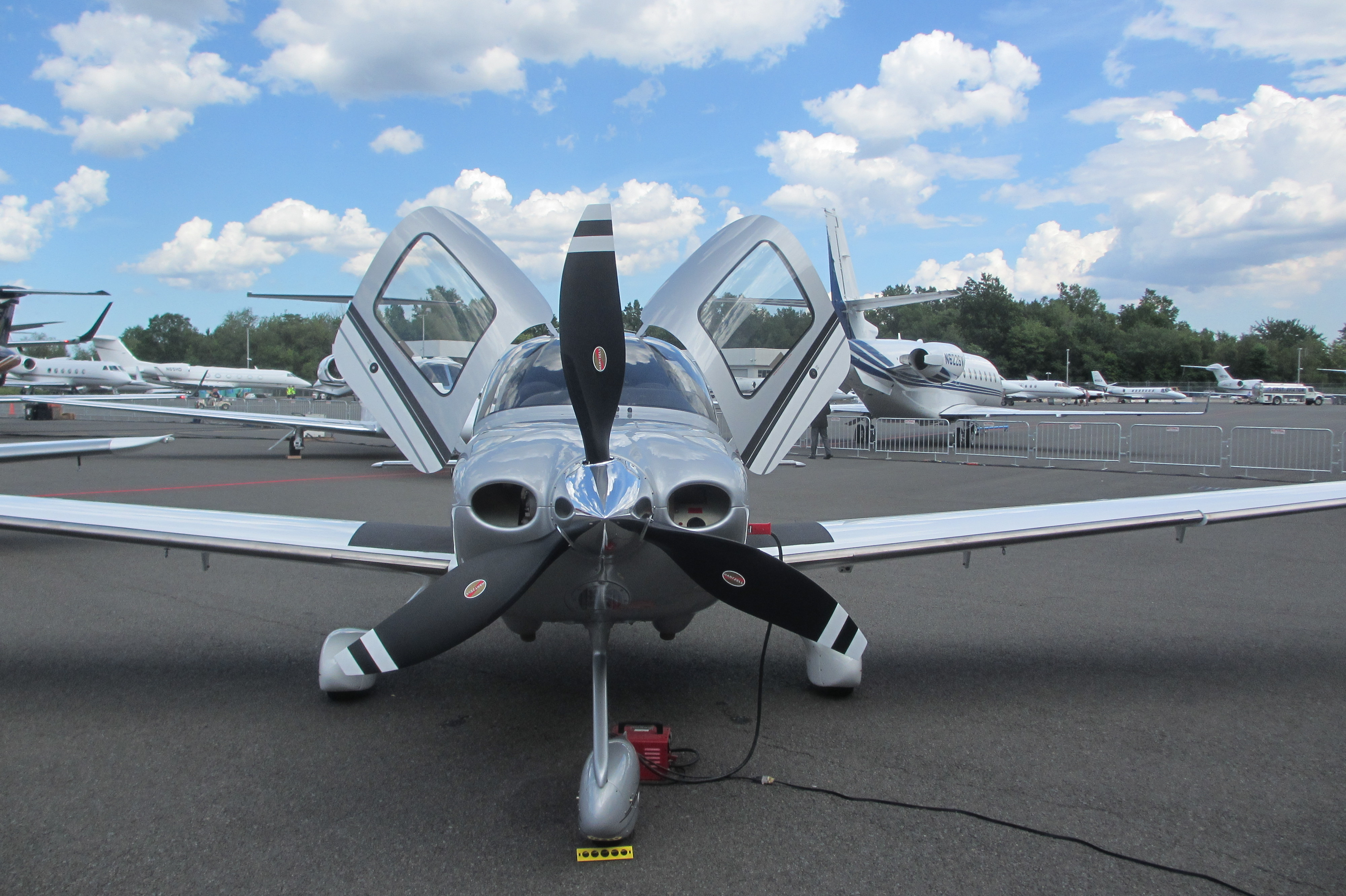 Cirrus SR22 exterior front view. Single engine piston aircraft.